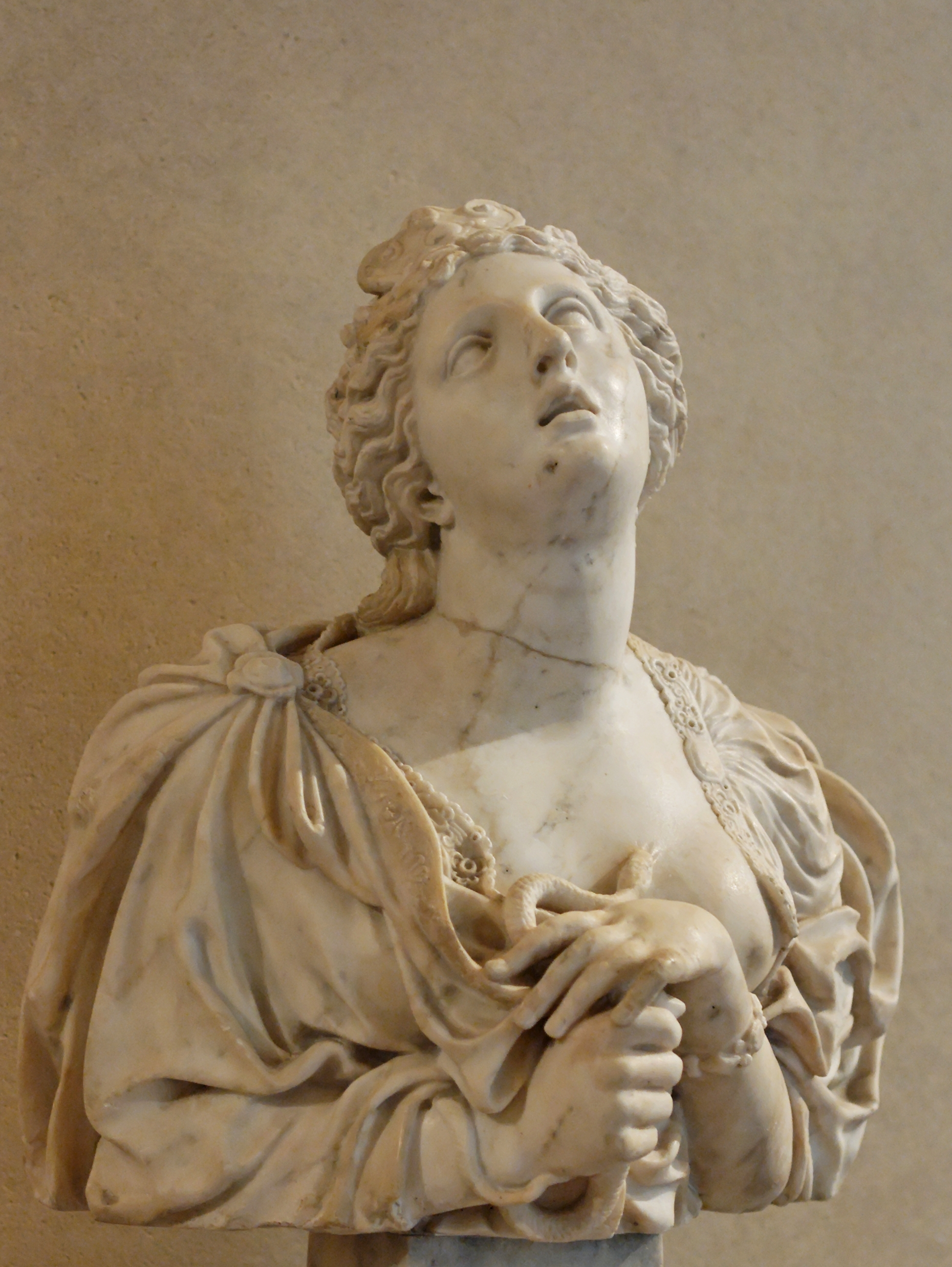 Cleopatra VII committing suicide.